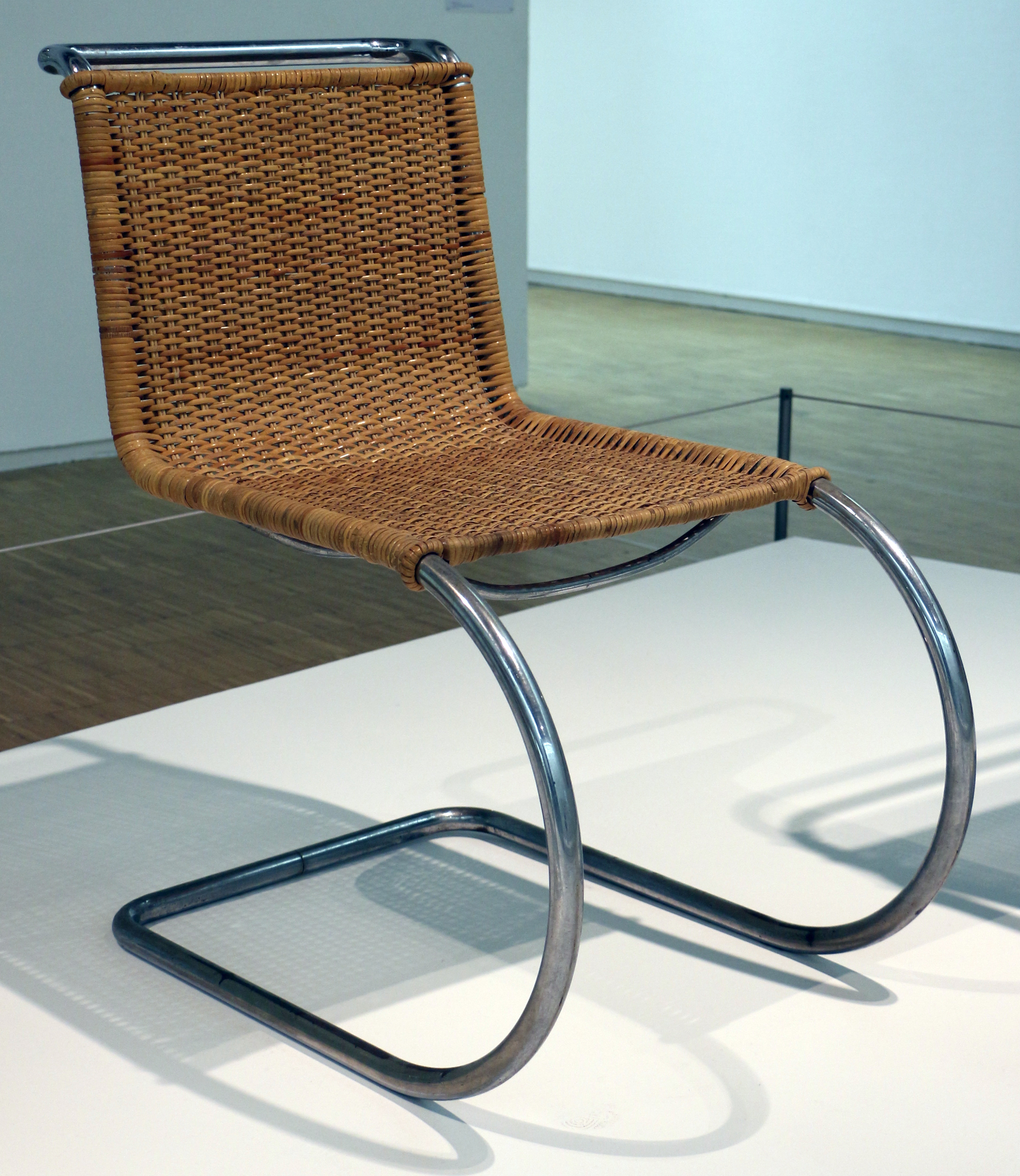 Decorative arts in the Musée national d'art moderne